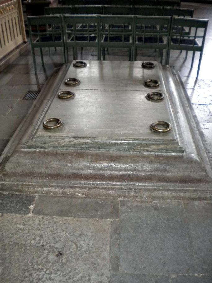 Grave hatch leading down to the family crypt of King Carl IX of Sweden in Strängnäs Cathedral, as released by image creator RistessonPlace: Strängnäs, Sweden